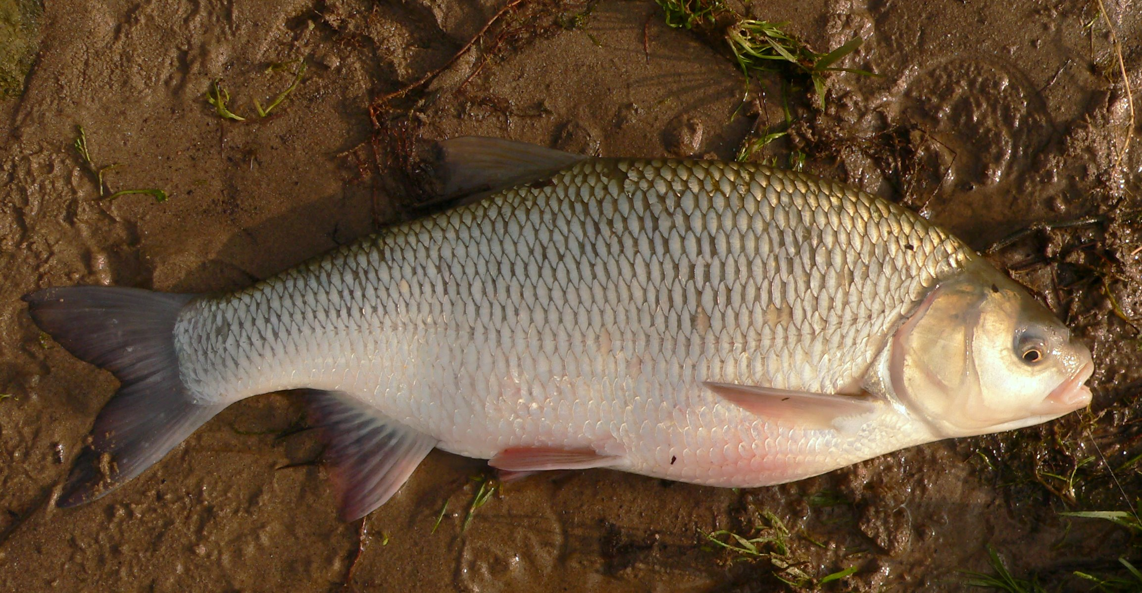 50 cm Ide from the river Nederrijn, Arnhem. Body of mature Ide becomes more sturdy.